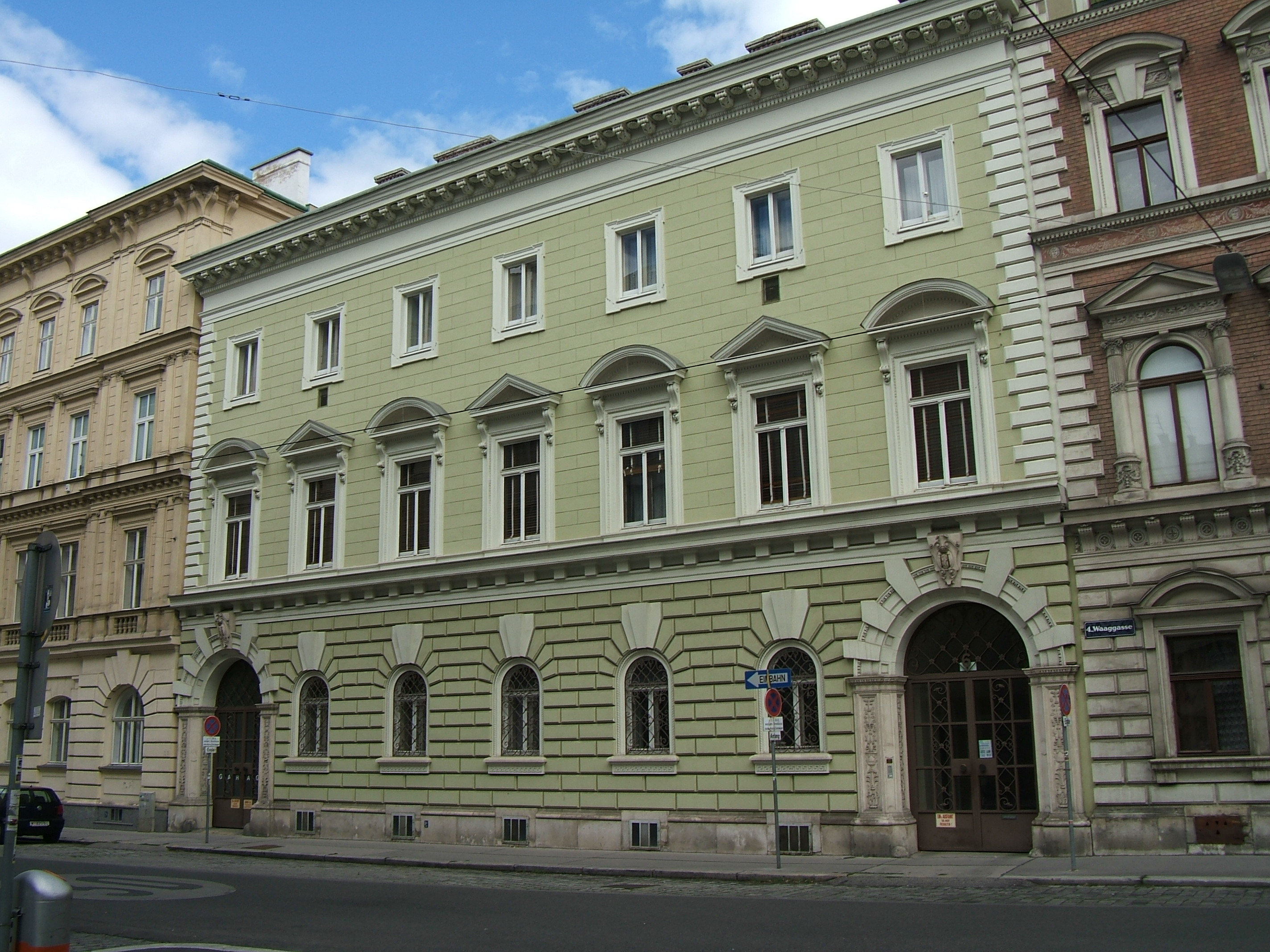 Palais Haas in Vienna 4th district Waaggasse 6